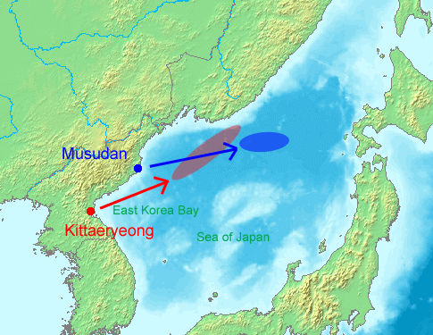 Missile launch in July 5th, 2006 by North Korea. Blue area means where the Taepodong seems to have impacted on Sea of Japan.